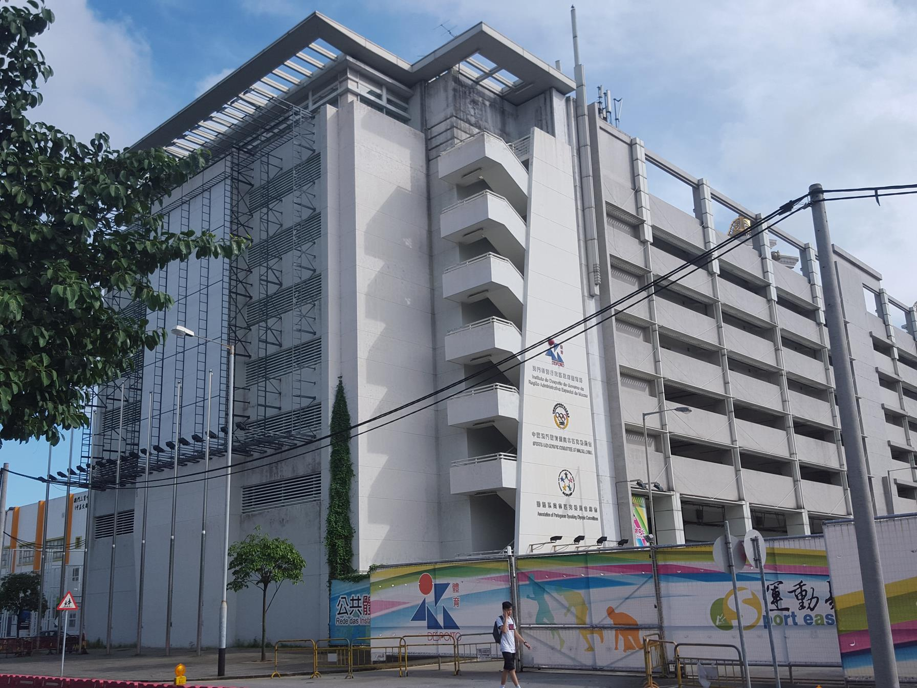 Car Parking building of Olympic Sport Centre